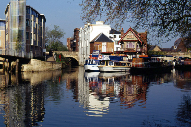 River Isis (Thames), Oxford. Showing the river just downstream from Folly Bridge, above the confluence with the Cherwell.